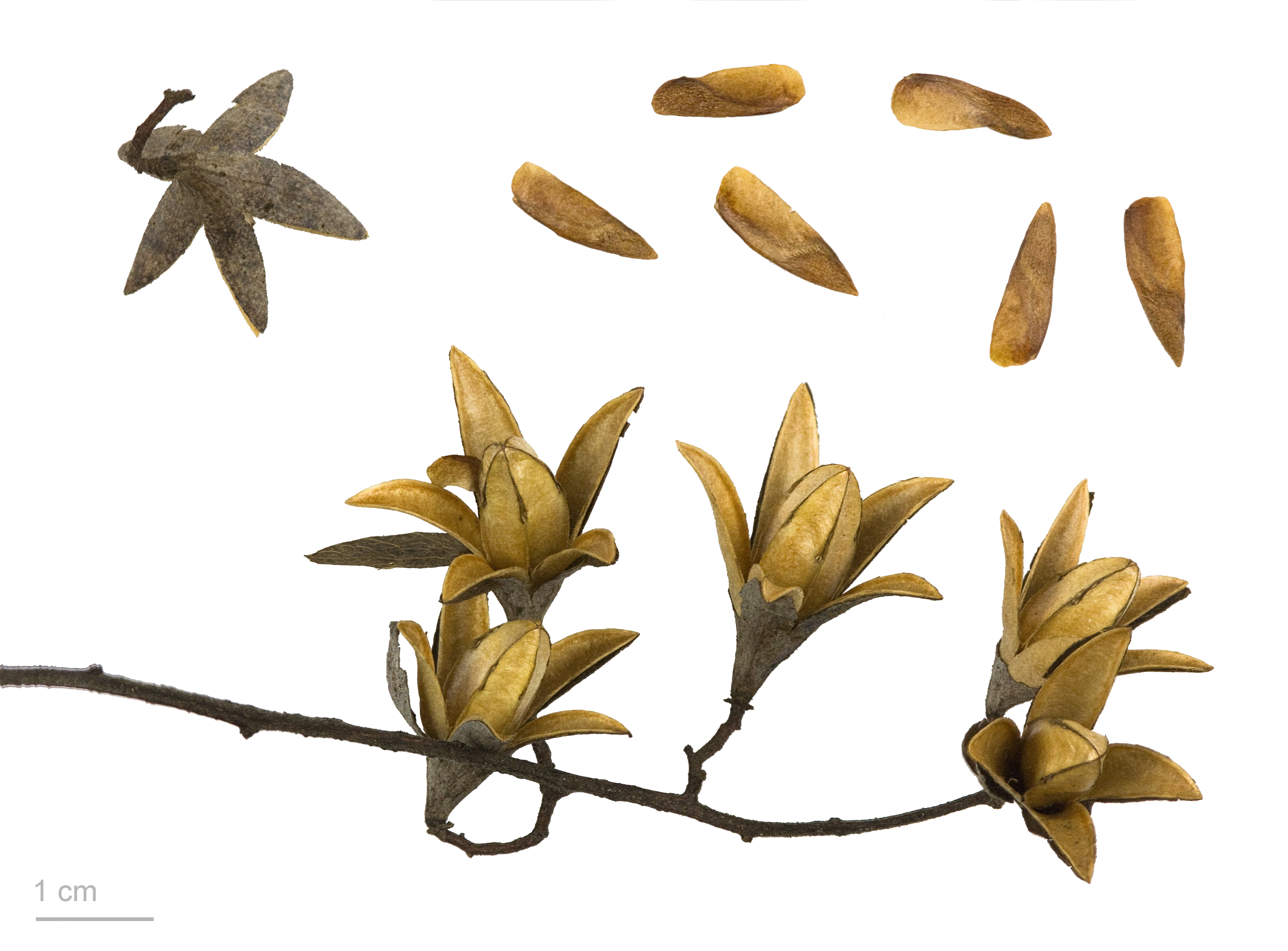 Chinese Mahogany , fruits and seeds